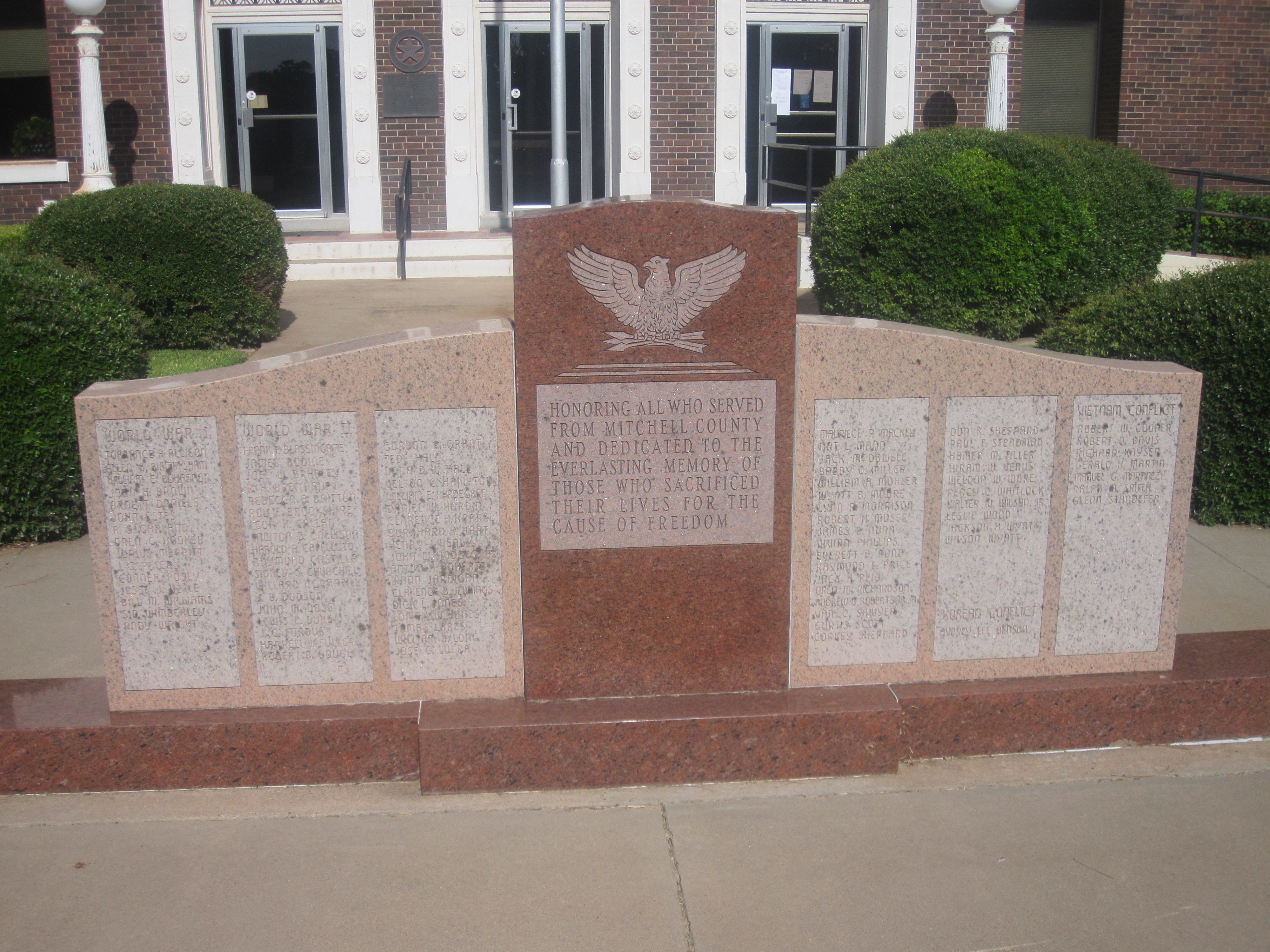 I took photo with Canon camera in CO City, TX.